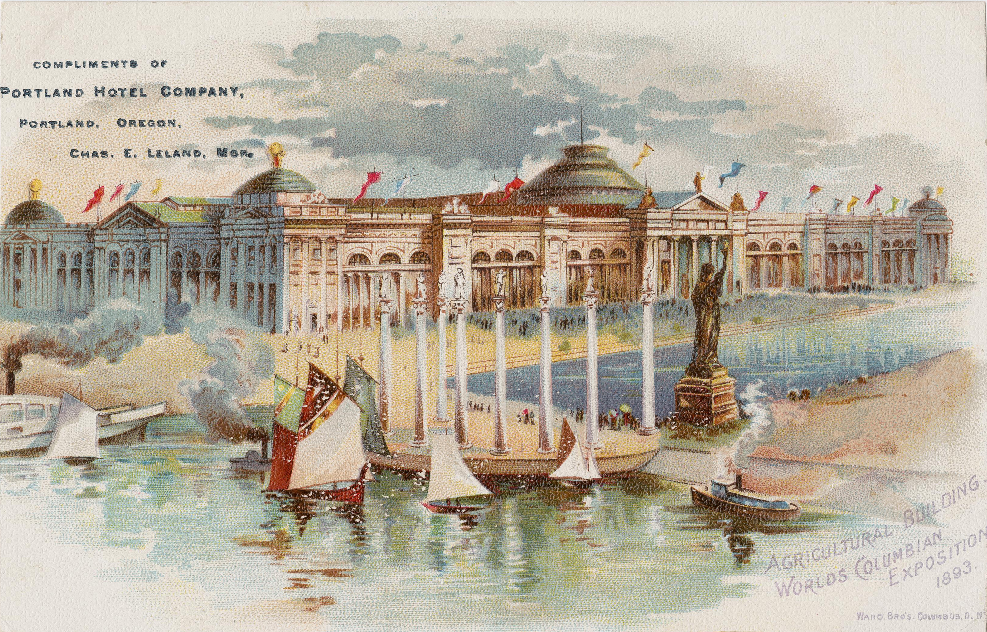 From the University of Maryland Digital Collections website: "A postcard featuring the Agricultural Building at the Worlds Columbian Exposition, Chicago, Illinois, circa 1893."